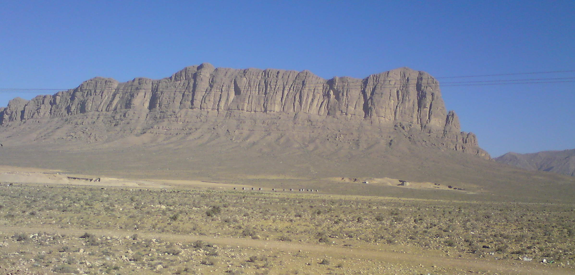 The Escaped-Castle Mountain,Sarvestan,IRAN